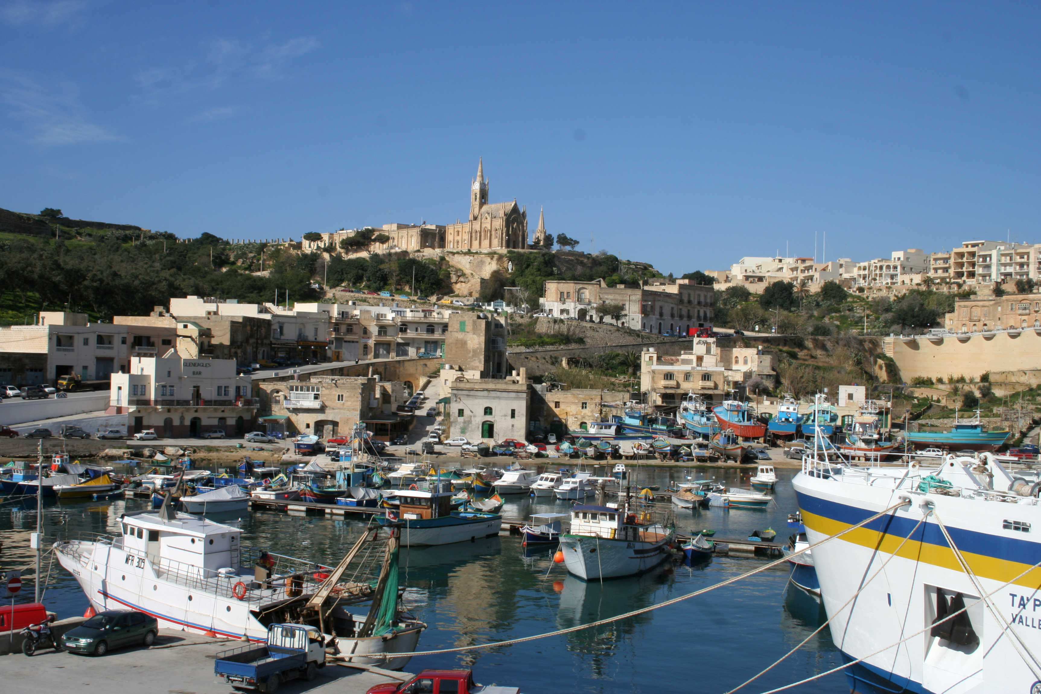 Gozo, Mgarr, harbour